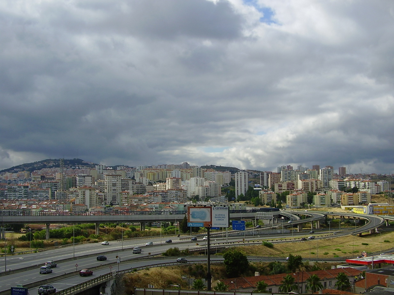 City of OdiveLAS, Portugal